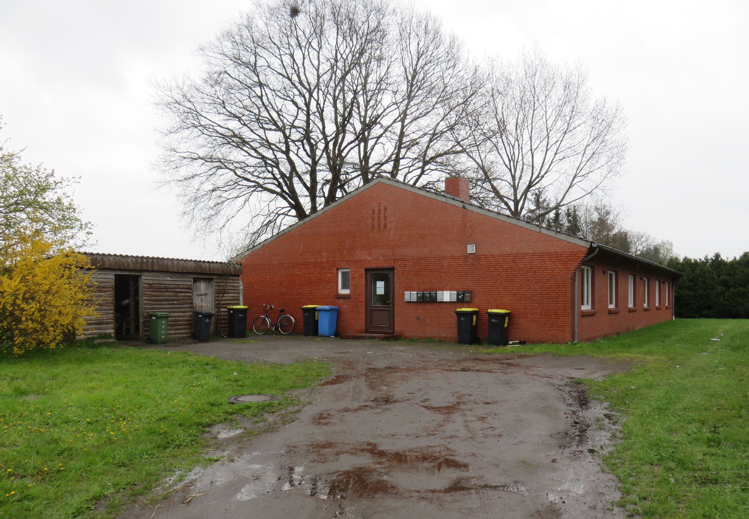 The so called Mariechen-Heim, southeast of Strackholt, on a rainy day